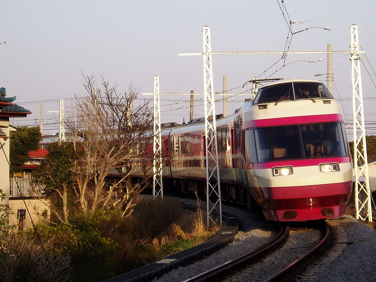 Odakyu Electric Railway,EMU Type 10000 between Odawara Sta. and Hakoneitabashi Sta.